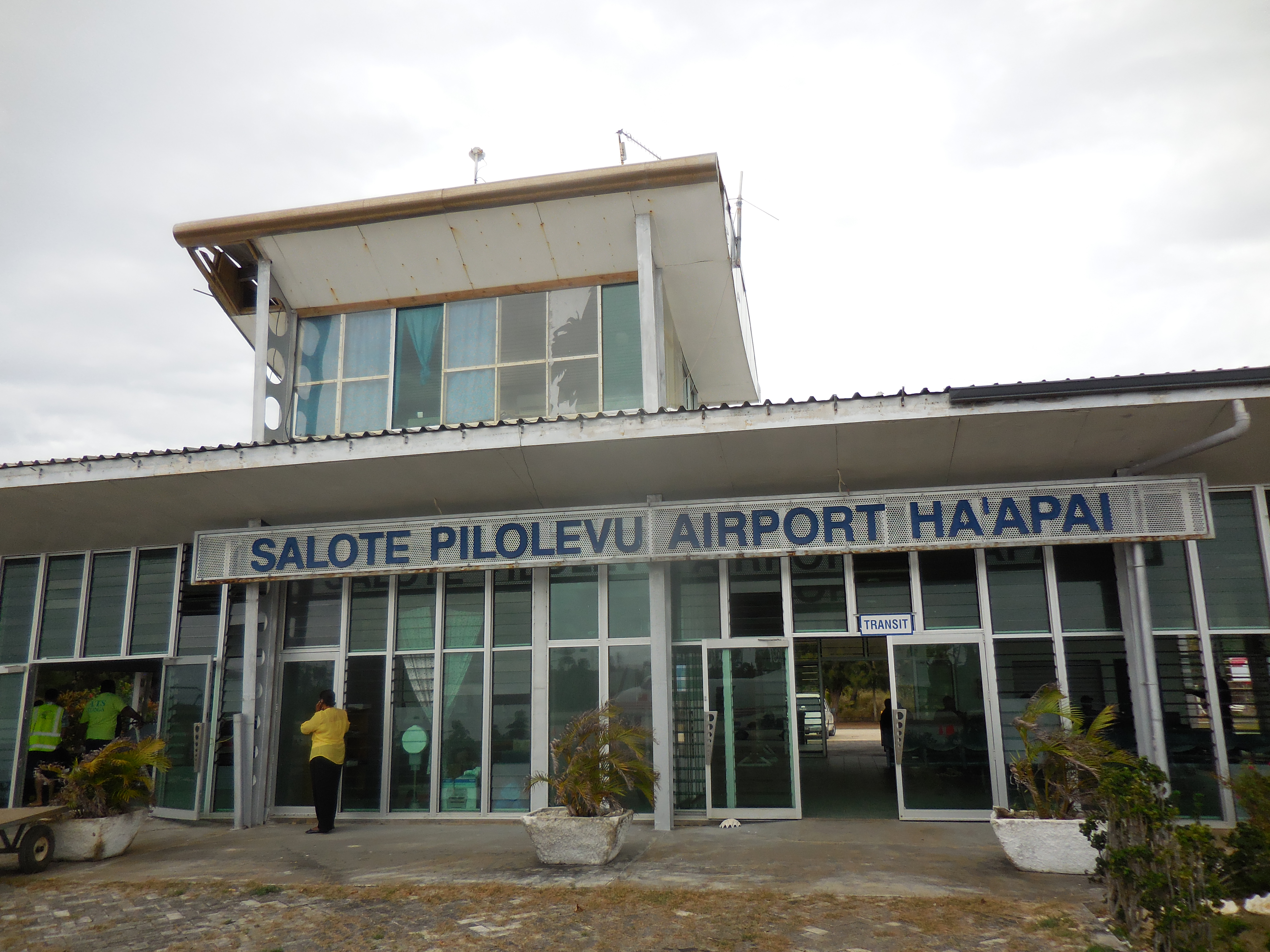 Ha'apai Island Airport, Tonga, South Pacific